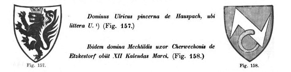 Heraldry description from tableux from Minorites Monastery in Vienna. Berichte und Mitteilungen des Altertums-Vereines zu Wien ( 1872 ), page 99